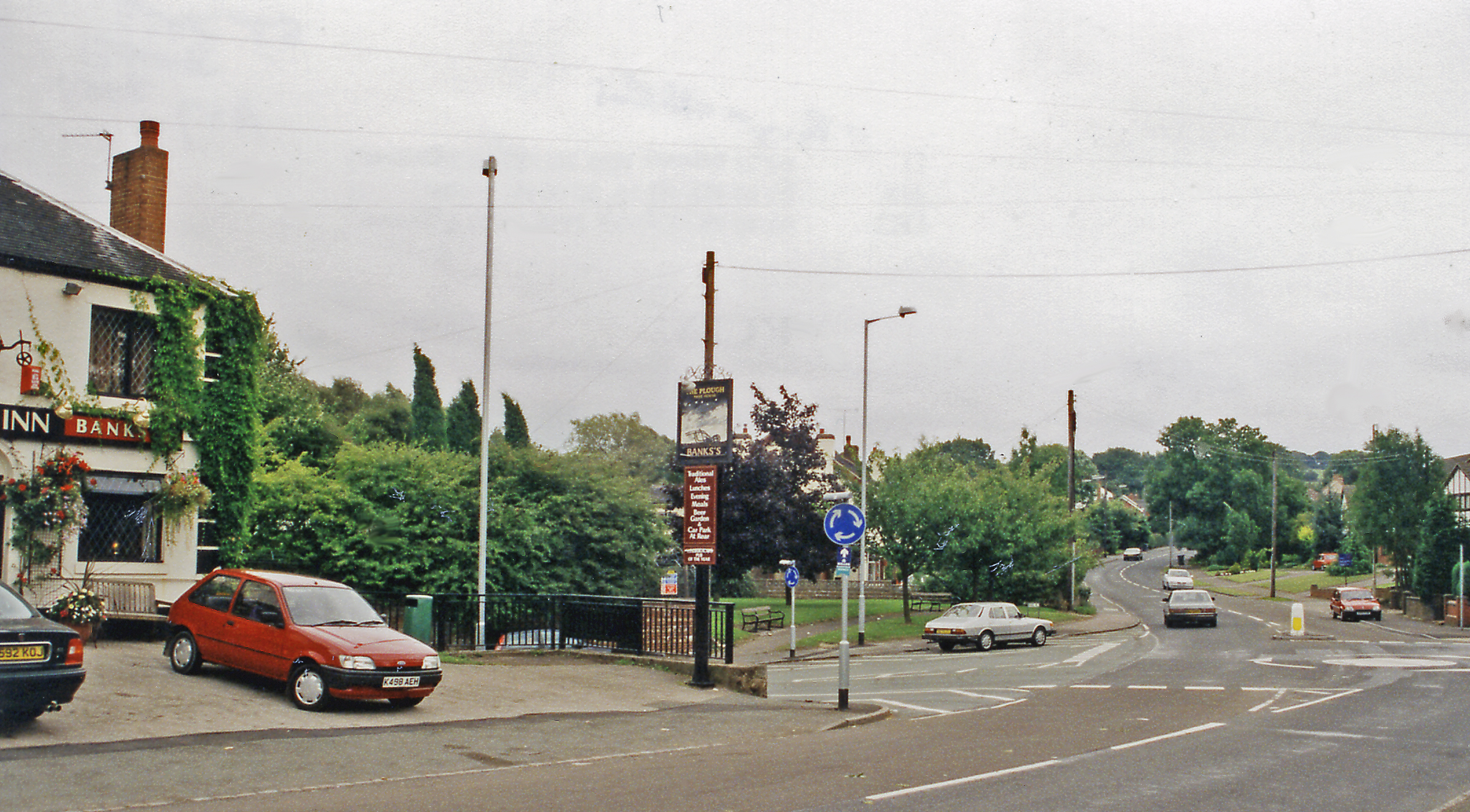 Site of Audley station, 1999. View NE on road where the ex-North Stafford Railway branch from Harecastle (to left) to Keele (to right) used to cross, Audley station having been on the right. The station had been closed when the passenger service ceased back on 27/4/31, but goods continued until closure of the line on 7/1/63. The Banks pub now dominates.